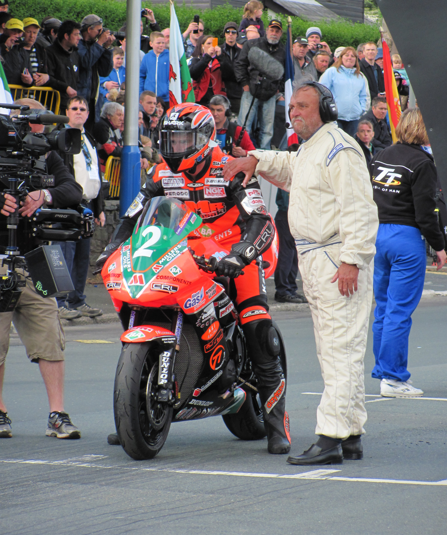 Description : Isle of Man TT Races Date : 9th June 2012 Source : Agljones at en.wikipedia Permission See below